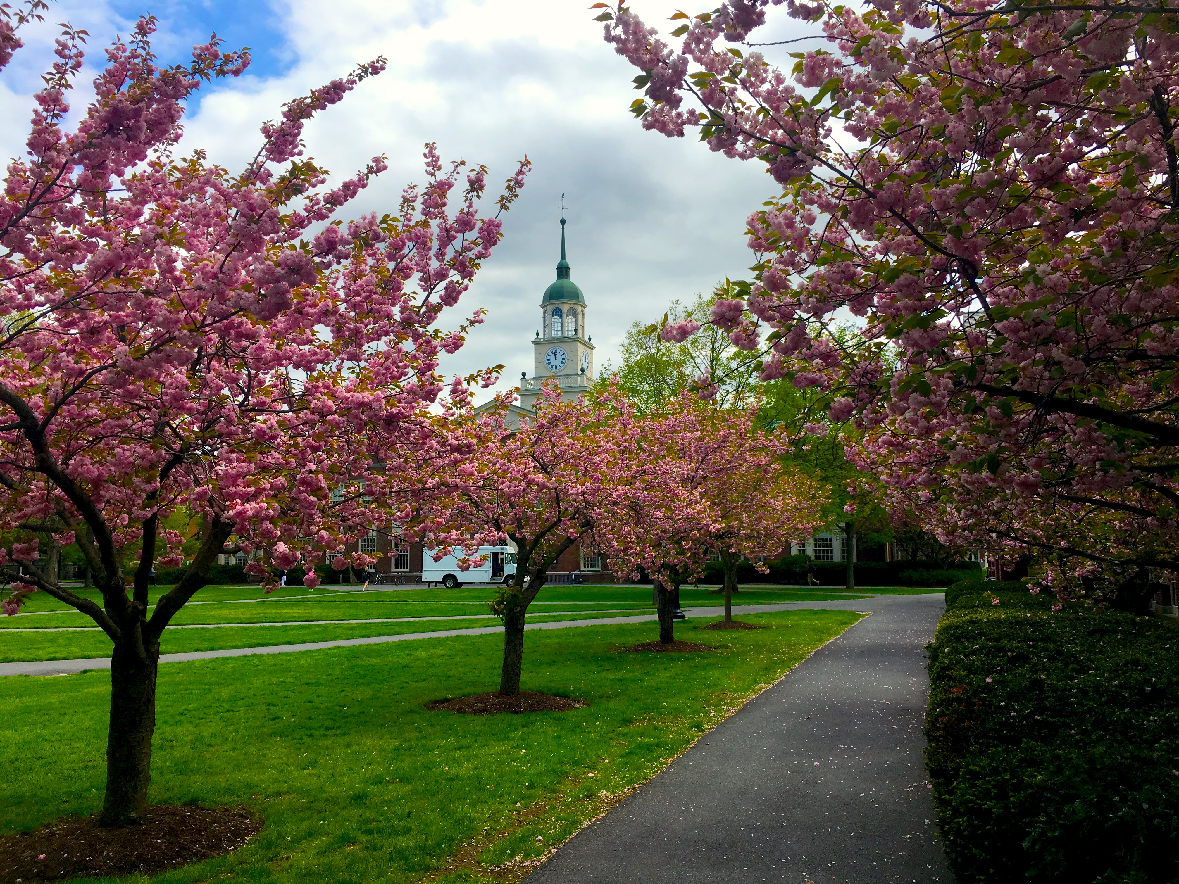 Cherry blossoms in April on the Academic Quad. Bertrand Library in the background. Bucknell University